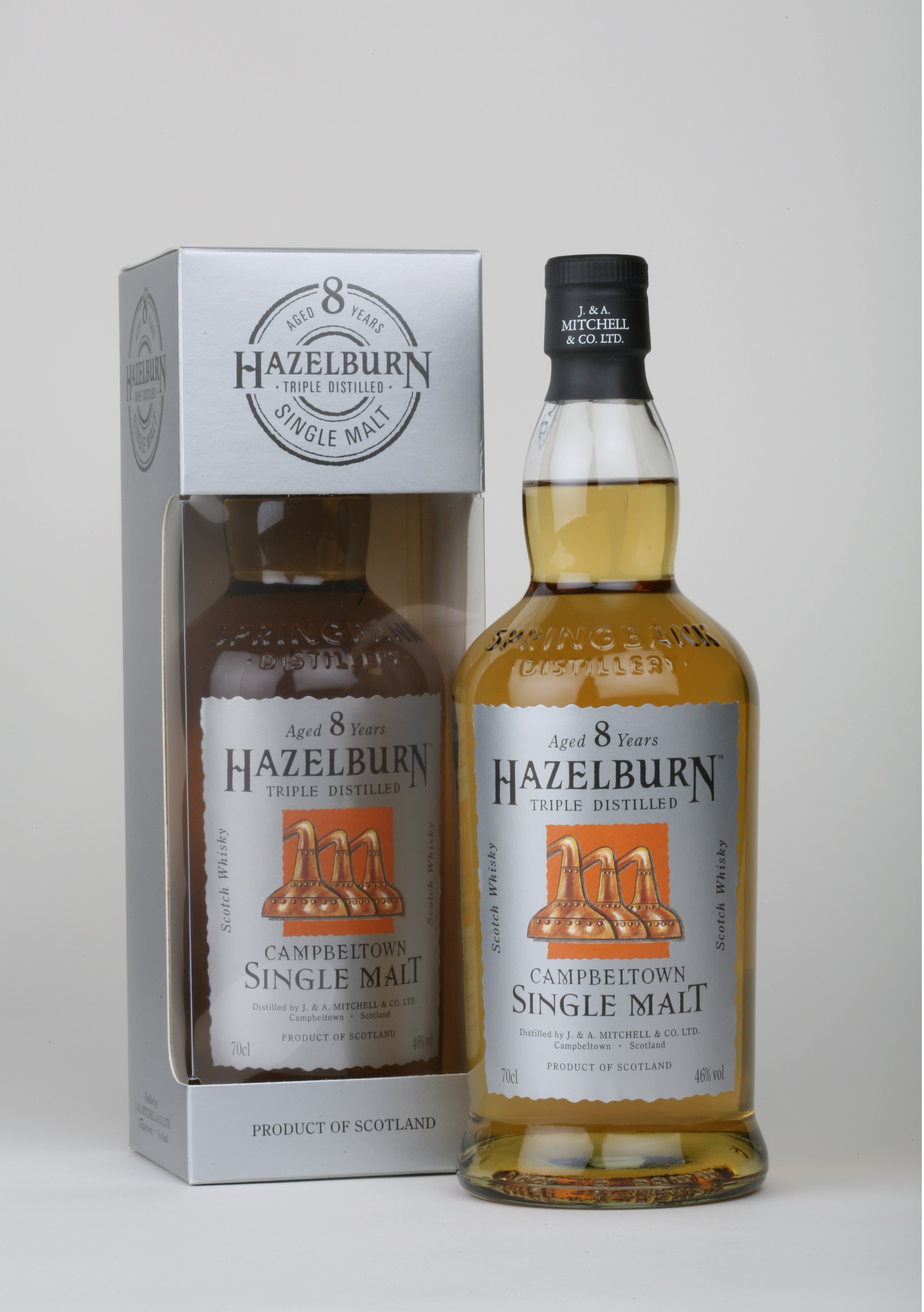 A bottle of Hazelburn Aged 8 years Whisky